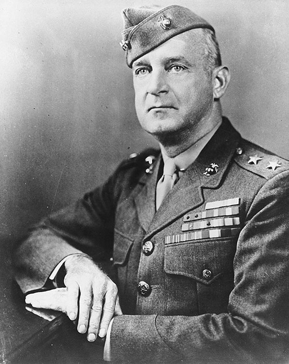 Major General Alexander A. Vandegrift, USMC - c. 1942. Portrait photograph taken circa 1942. Official U.S. Marine Corps Photograph, from the collections of the Naval Historical Center.